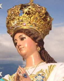 Cuatricentenaria, Consagrada, Pontificia y Condecorada Imagen de la Virgen de los Reyes, la Inmaculada Concepción. Templo de San Francisco, Nueva Guatemala de la Asunción Siglo: Mediados del XVI Autor: Anónimo Procedencia: Sevilla, España Lugar de Veneración Original: Iglesia de San Francisco, Santiago de Guatemala.